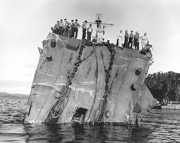 Collapsed bow of the U.S. Navy light cruiser USS Honolulu (CL-48), after she was torpedoed in the Battle of Kolombangara on 13 July 1943. The photo was taken while she was under repair at Tulagi on 20 July 1943. Note the anchor chains and other foredeck details.